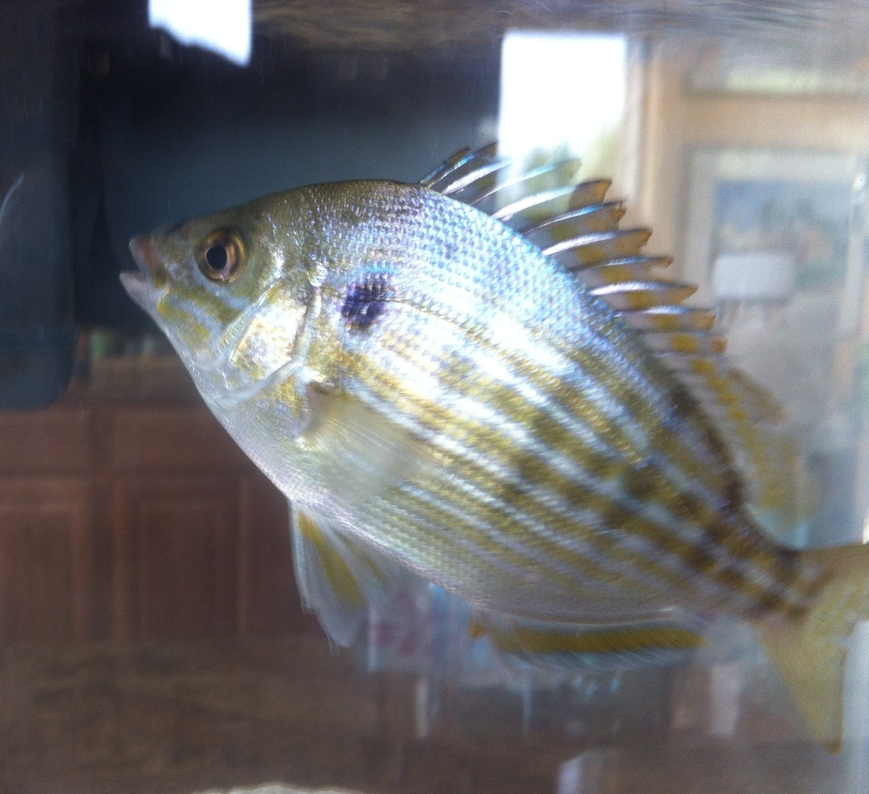 Crop of file in filename